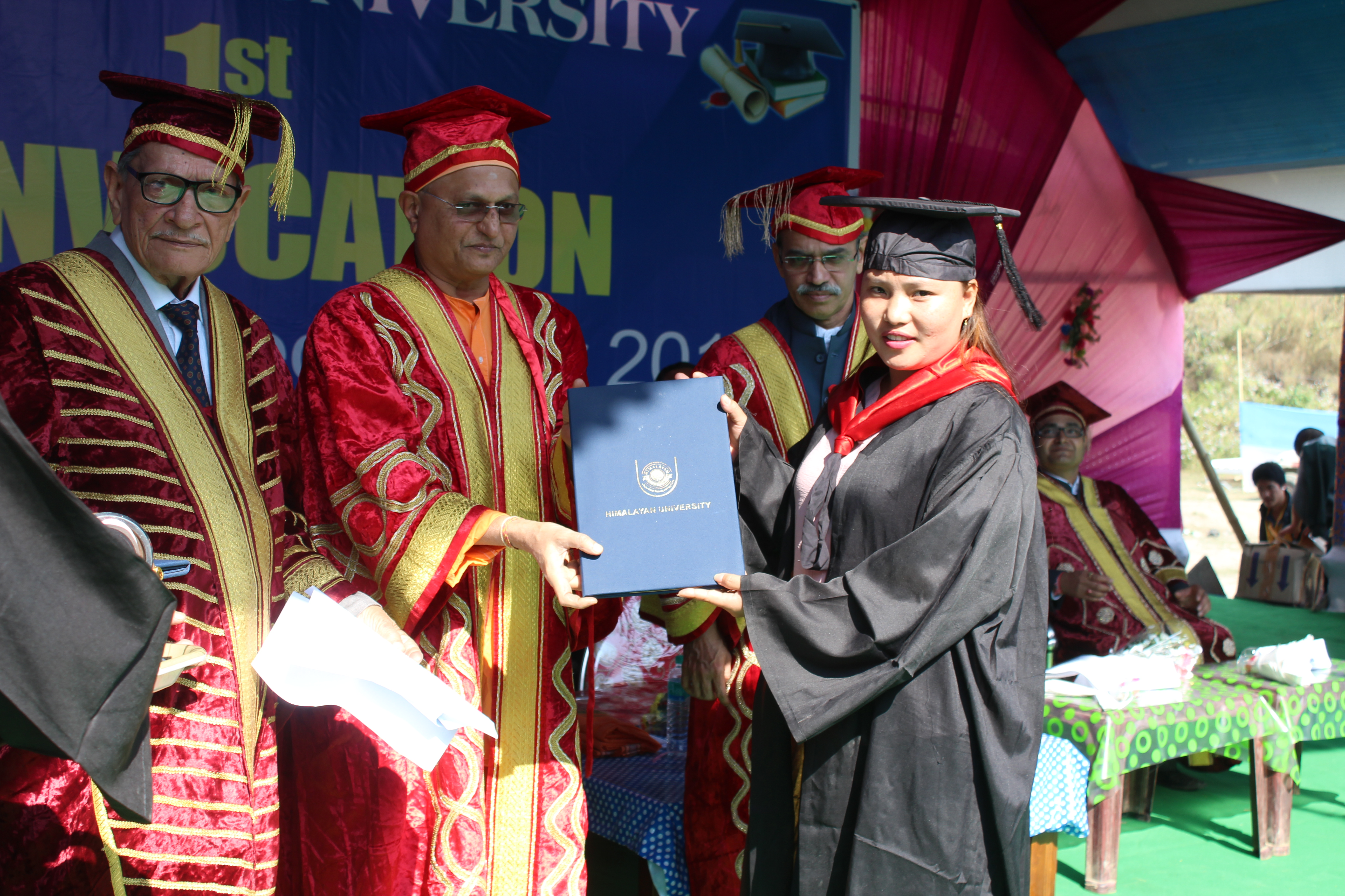 Himalayan University Convocation Program held in Dec 2017